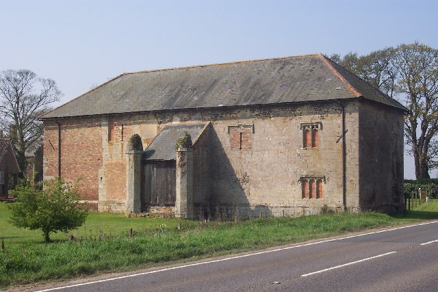 Stone barn at Bexwell, near Downham Market, Norfolk. This stone barn, which stands beside the A1122 just outside Downham Market, is thought to be the remains of a late c15 gatehouse to the former manor of Bexwell.